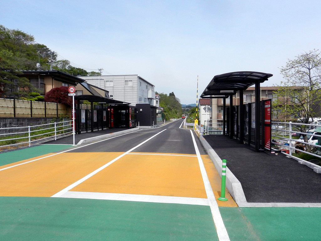 JR East Kesennuma Station, after Kesennuma Line has been converted to bus rapid transit